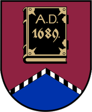 Coat of arms of Alūksne Municipality, Latvia